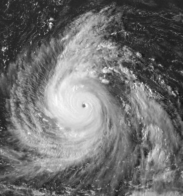 Super Typhoon Oliwa visible satellite image from September 10.